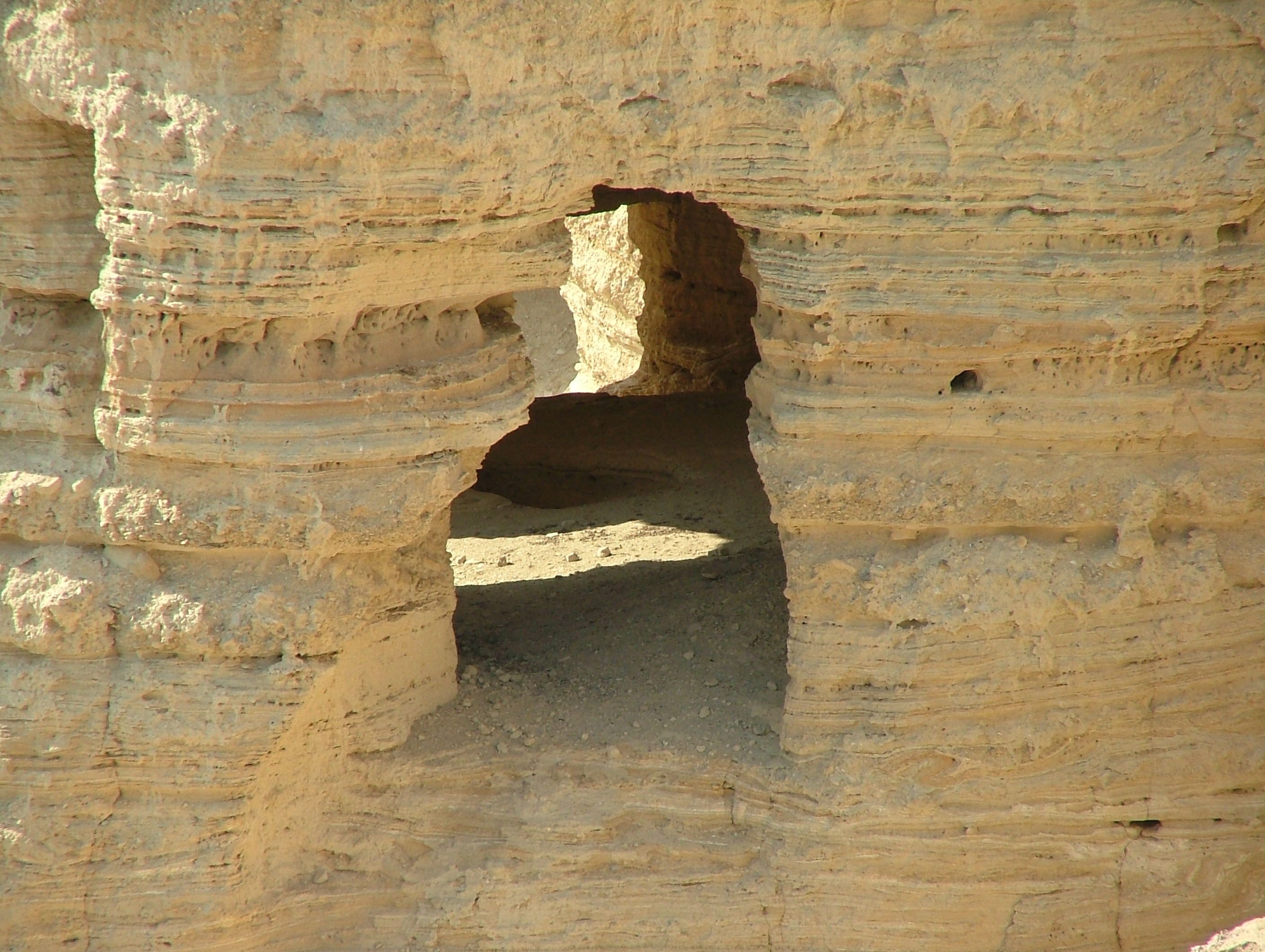 Cave 4Q of the Qumran Caves, The Judaean Desert.